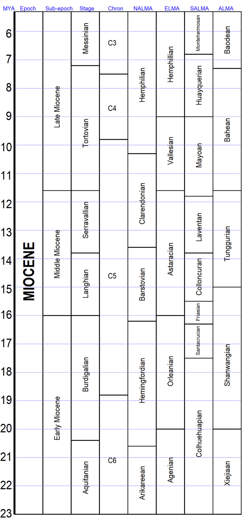 A comparison of various schemes for subdividing the Miocene epoch.